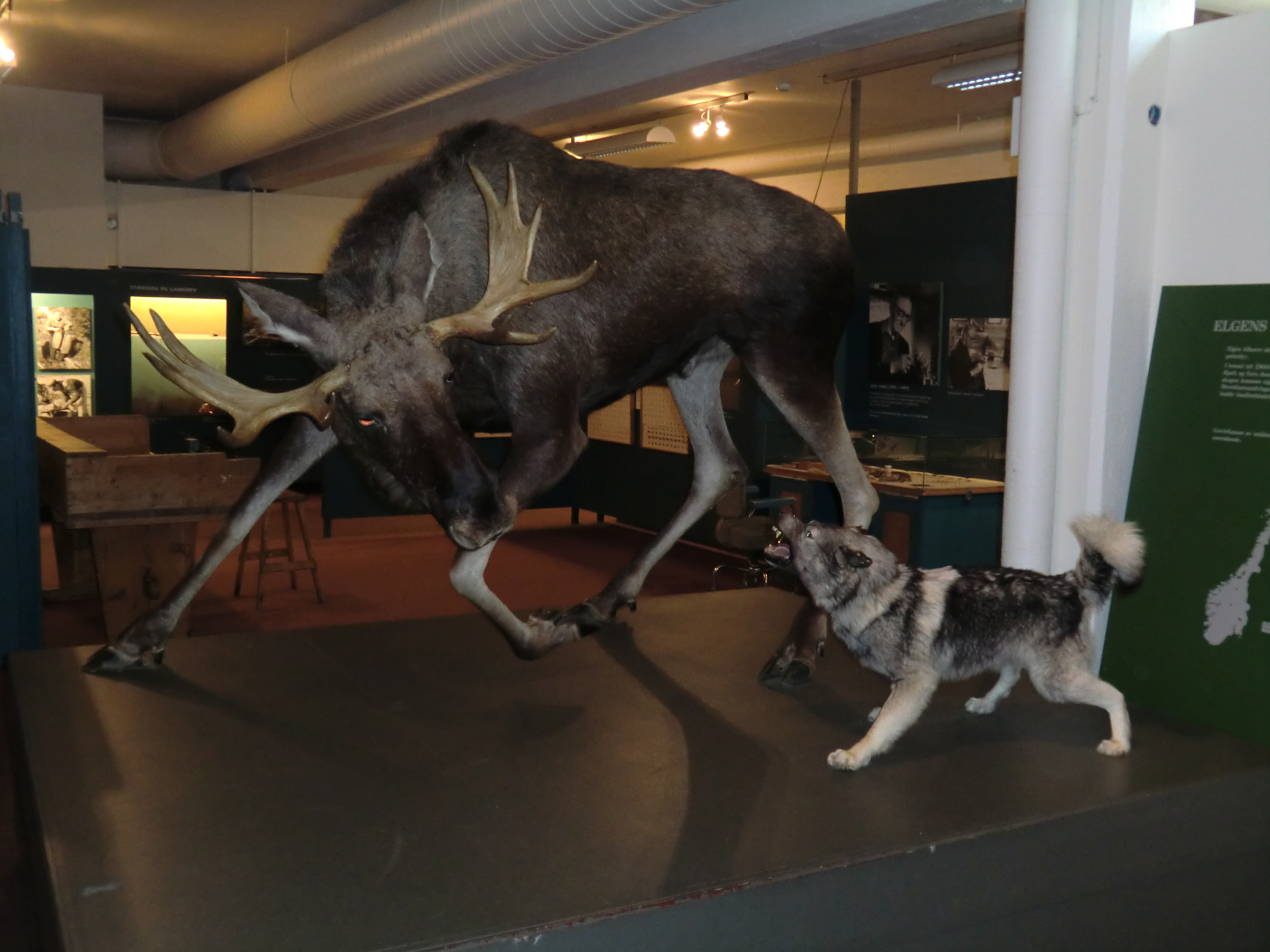 Hunting dog barking at elk (Alces alces) in Norsk Skogmuseum, Elverum, Norway.